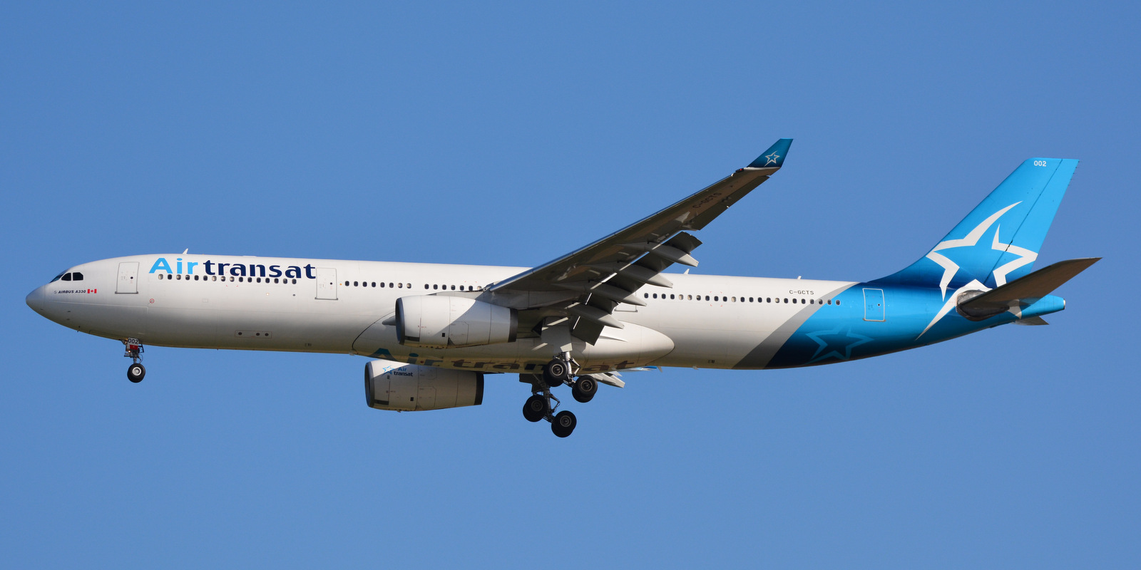 Paris-Charles de Gaulle Airport